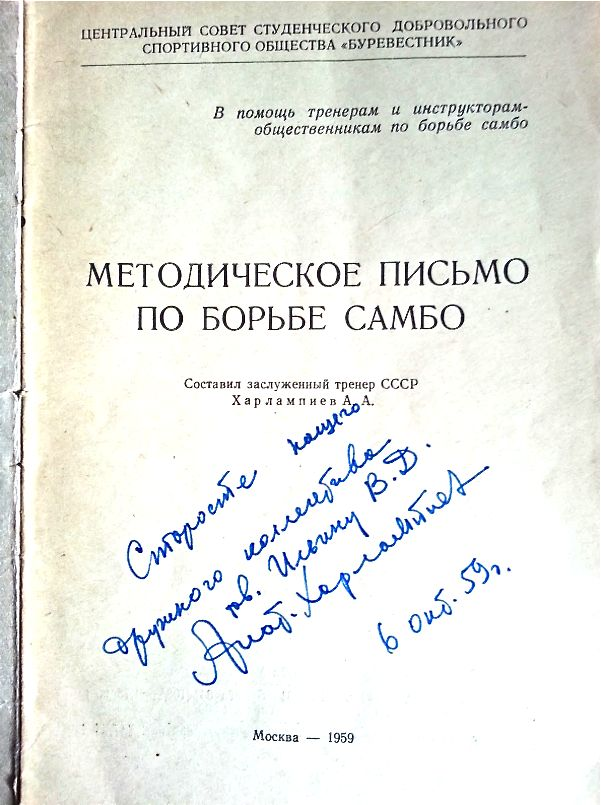 Gift entry made AA Harlampiev.This brochure is presented at the congress coaches sambo (Malahovka, 1959). Picture taken VD Ilyin